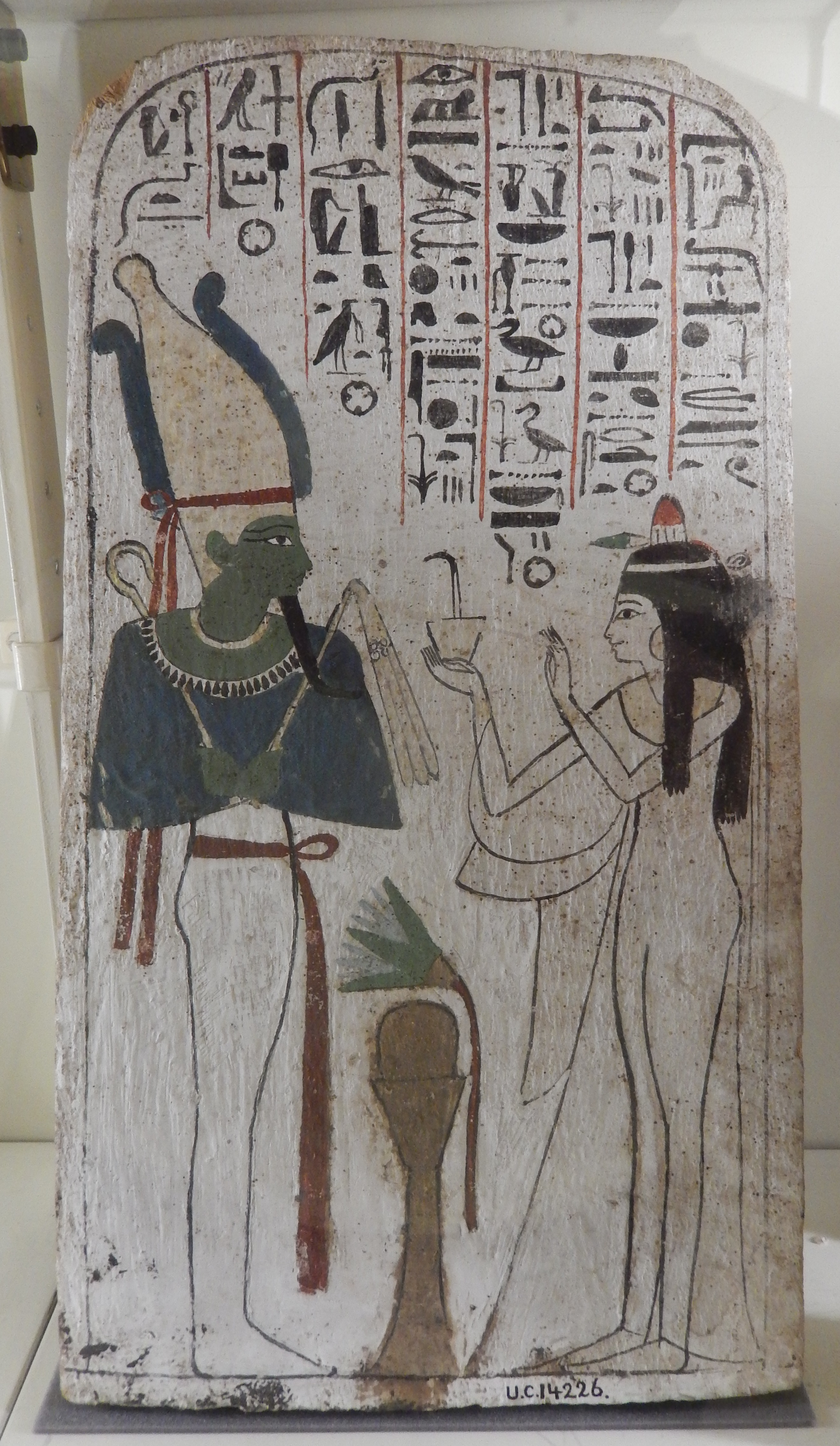 Wooden tablet of Neskhons, wife of the High Priest of Amun Pinedjem II; the deceased is here depicted in front of Osiris. Painted wood, from Neskhons' tomb at Deir el-Bahari, 21st dynasty, Third Intermediate Period. Now in Petrie Museum, UC14226.